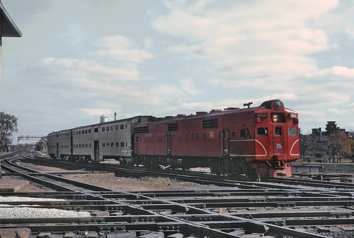 CRI&P 751, an EMC AB6, in suburban service at Joliet.